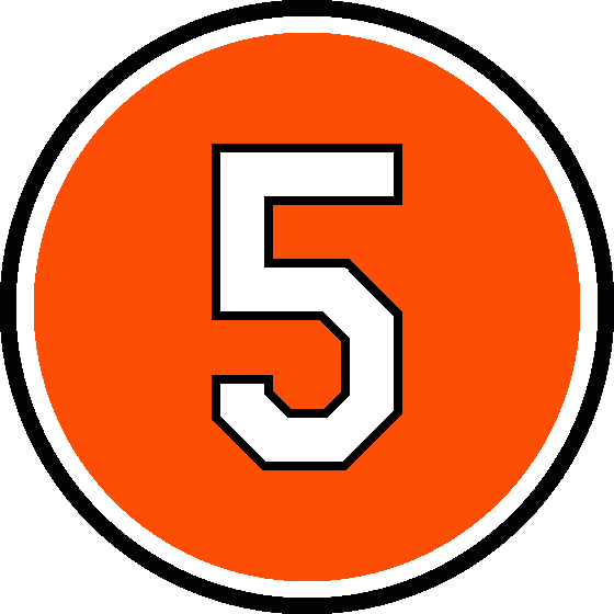 The number "5", retired for Brooks Robinson by the Baltimore Orioles.